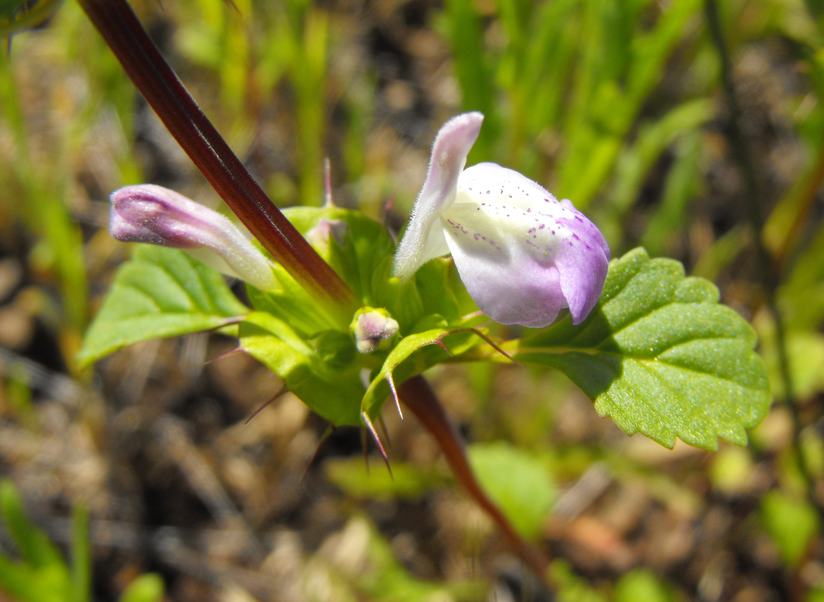 Acanthomintha ilicifolia in Sycamore Canyon, San Diego, California, USA. I found the plant just down the trail, around the first curve, from the parking area off Hwy 67, amidst weeds.